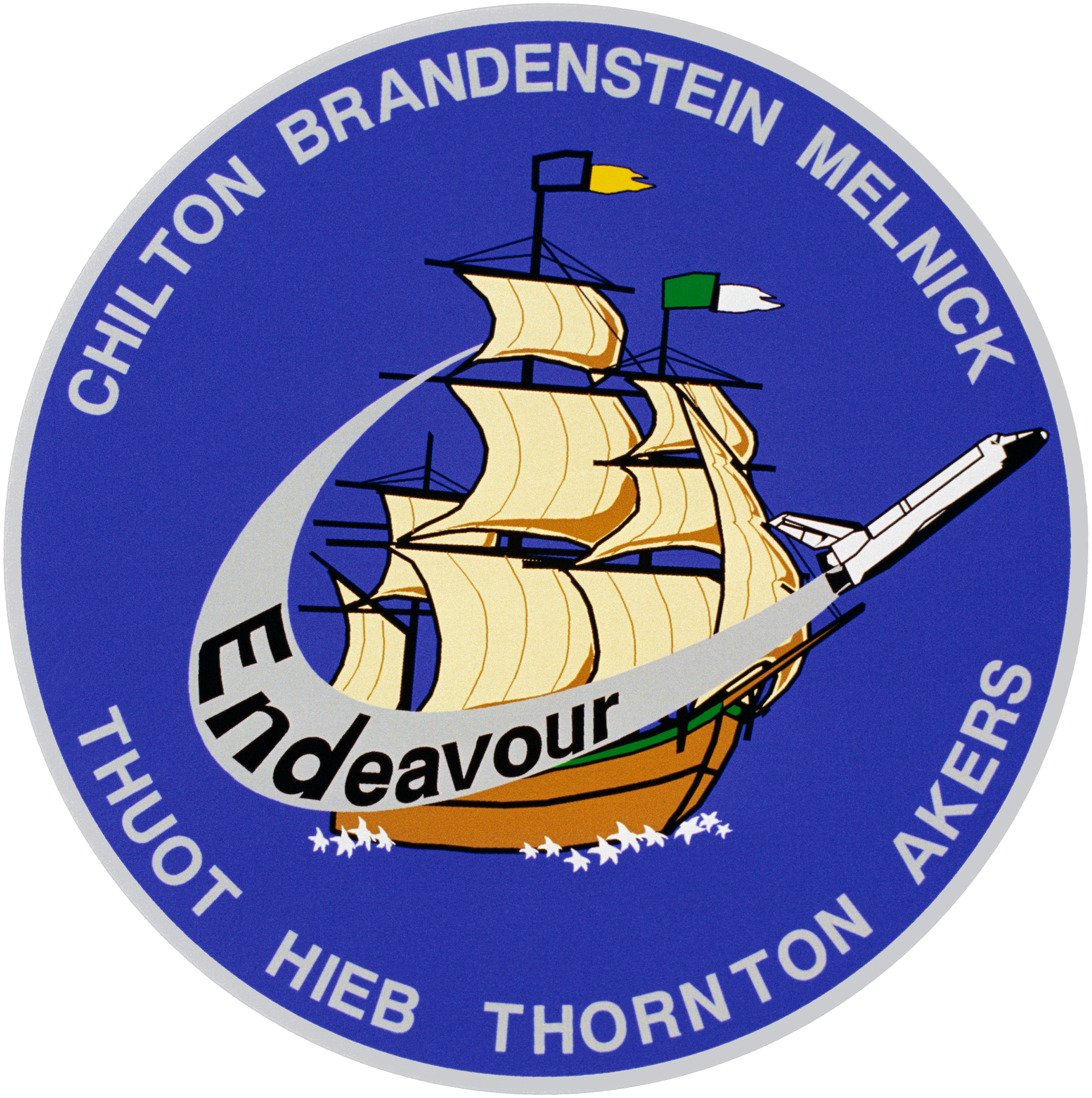 STS-49 Patch STS-49 Endeavour, Orbiter Vehicle (OV) 105, crew insignia (logo), the official insignia of the NASA STS-49 mission, captures space flight's spirit of exploration which has its origins in the early seagoing vessels that explored the uncharted reaches of Earth and its oceans. The ship depicted on the patch is HMS Endeavour, the sailing vessel which Captain James Cook commanded on his first scientific expedition to the South Pacific. Just as Captain Cook engaged in unprecedented feats of exploration during his voyage, on Endeavour's maiden flight, its crew will expand the horizons of space operations with an unprecedented rendezvous and series of three space walks. During three consecutive days of extravehicular activity (EVA), the crew will conduct one space walk to retrieve, repair and deploy the INTELSAT IV-F3 communications satellite, and two additional EVAs to evaluate the potential Space Station Freedom (SSF) assembly concepts. The flags flying on Endeavour's masts wear the colors of the two schools that won the nationwide contest when Endeavour was chosen as the name of NASA's newest Space Shuttle: Senatobia (Mississippi) Middle School and Tallulah Falls (Georgia) School The names of the STS-49 flight crewmembers are located around the edge of the patch. They are Commander Daniel C. Brandenstein, Pilot Kevin P. Chilton, Mission Specialist (MS) Pierre J. Thuot, MS Kathryn C. Thornton, MS Richard J. Hieb, MS Thomas D. Akers, and MS Bruce E. Melnick. Each crewmember contributed to the design of the insignia.